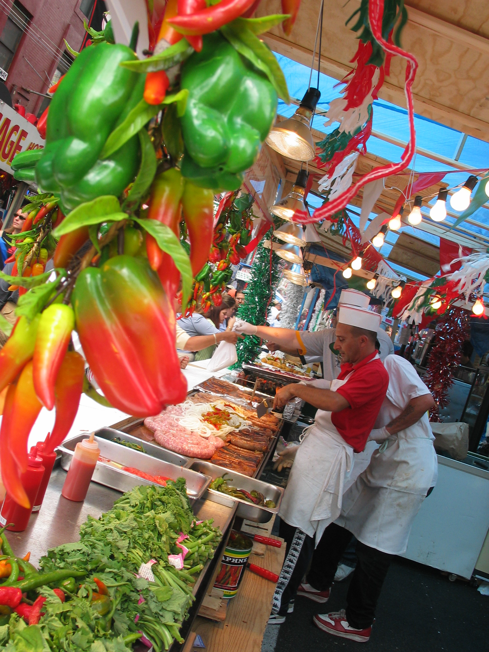 Street vendors at the annual Feast of San Gennaro in Little Italy, New York City. Image taken by User:Dschwen on Sept 8th 2004.